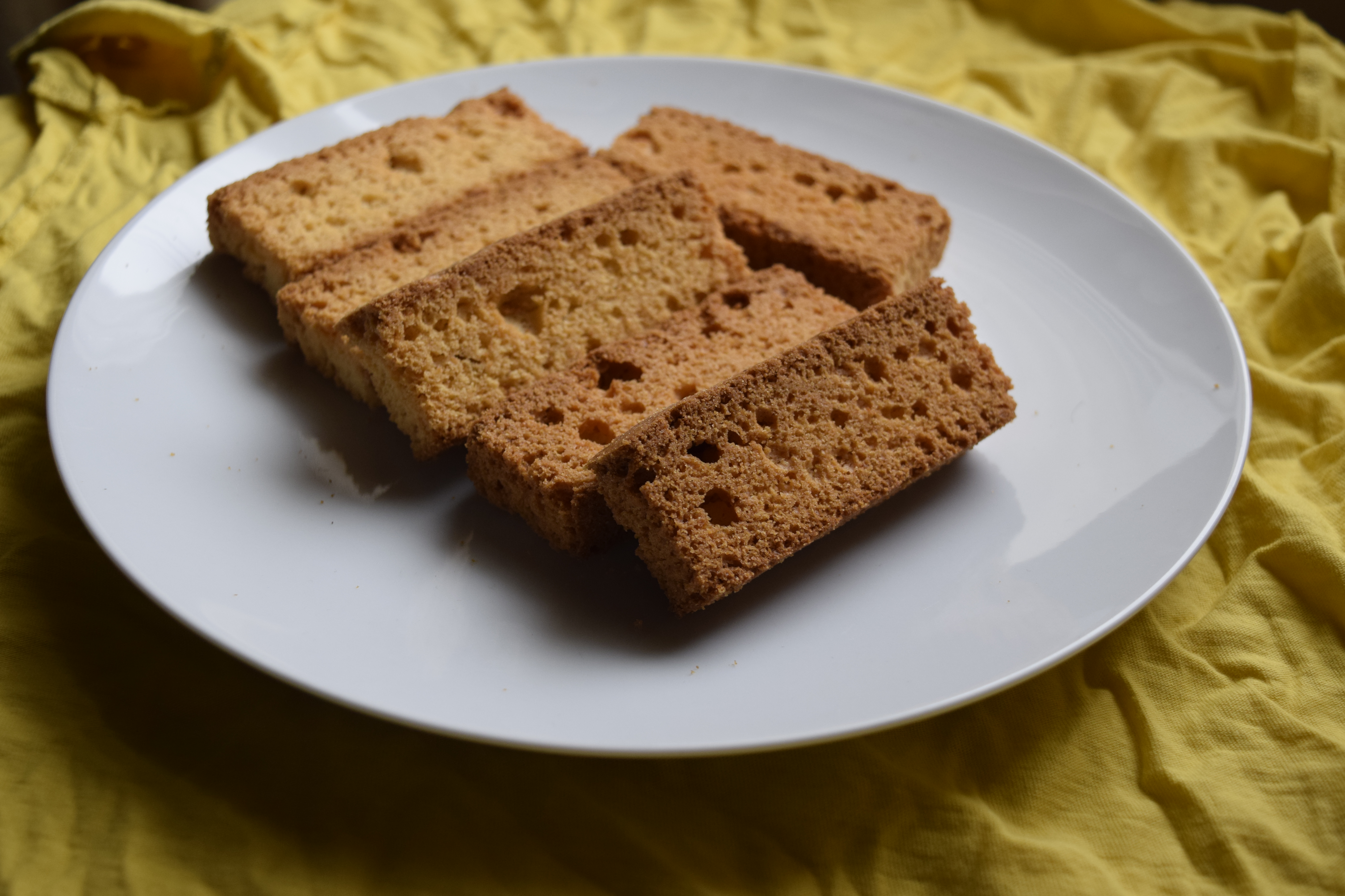 Cake rusk